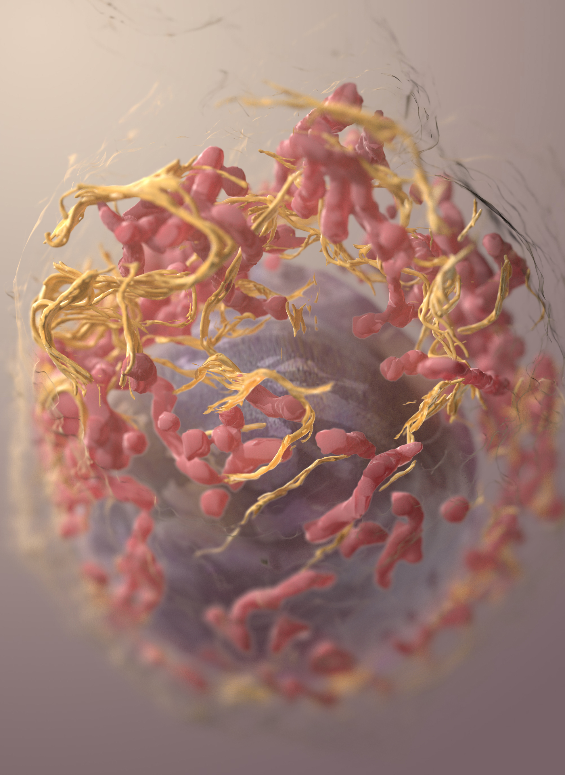 3D structure of a melanoma cell derived by ion abrasion scanning electron microscopy.